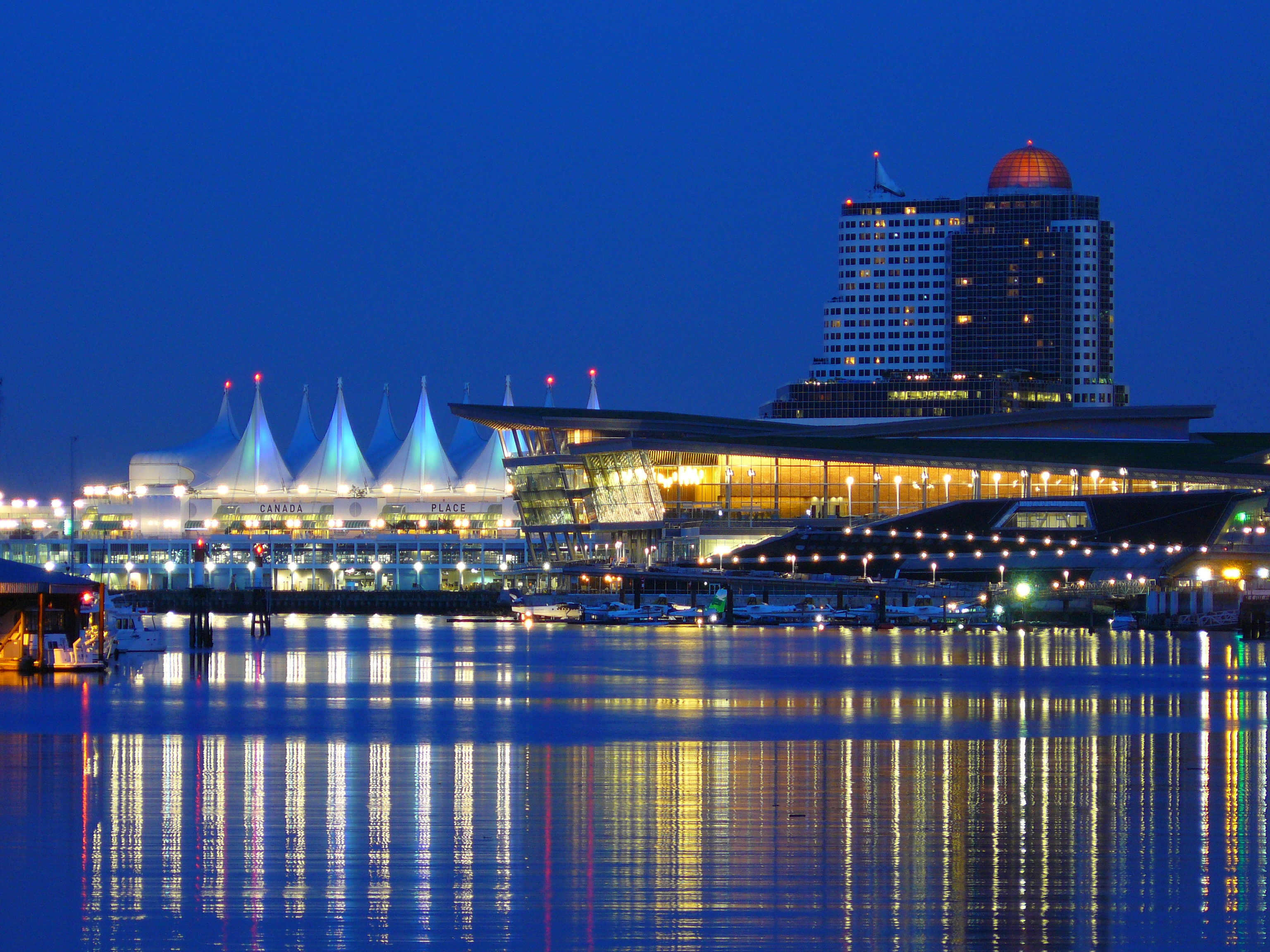 This is a photo of Vancouver's new convention center as well as Canada Place, an older terminal and convention facility. A seaplane port is in front of the convention center. The photo is taken from Coal Harbour near Stanley Park at dusk.